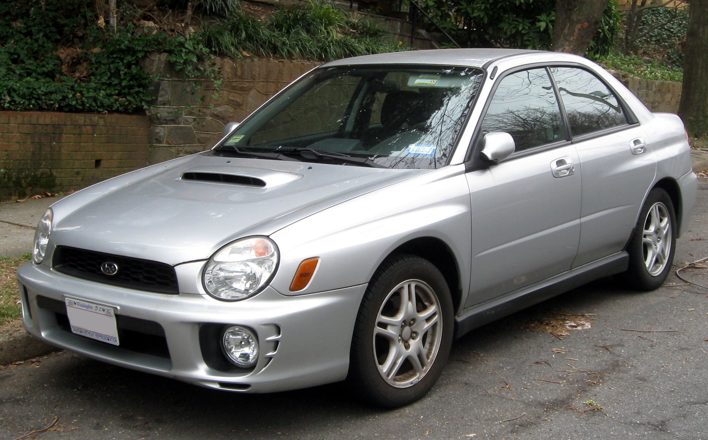 2002-2003 Subaru Impreza WRX photographed in Washington, D.C., USA.